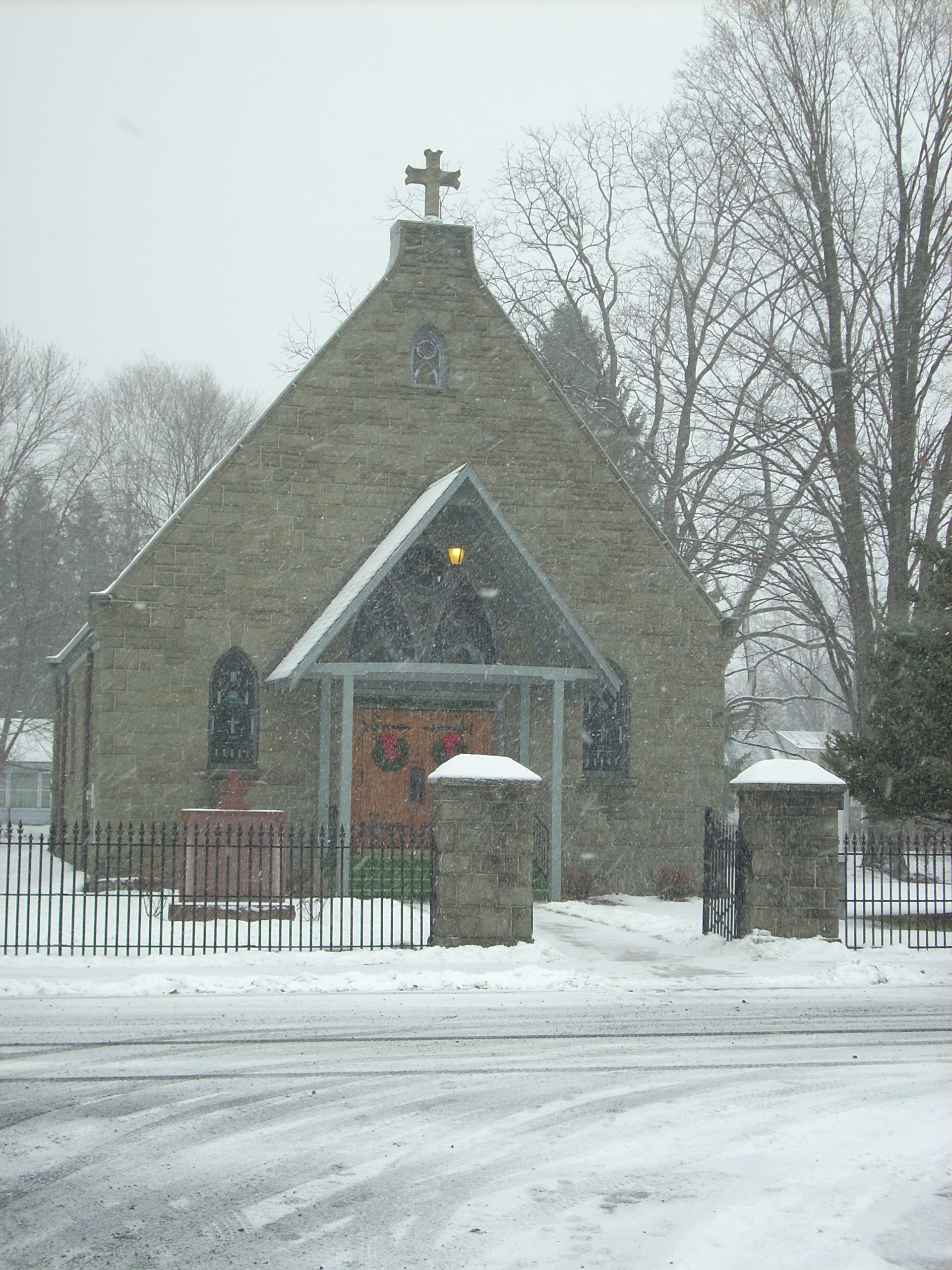 St. Catherine of Siena Roman Catholic Church in Westfield, PA